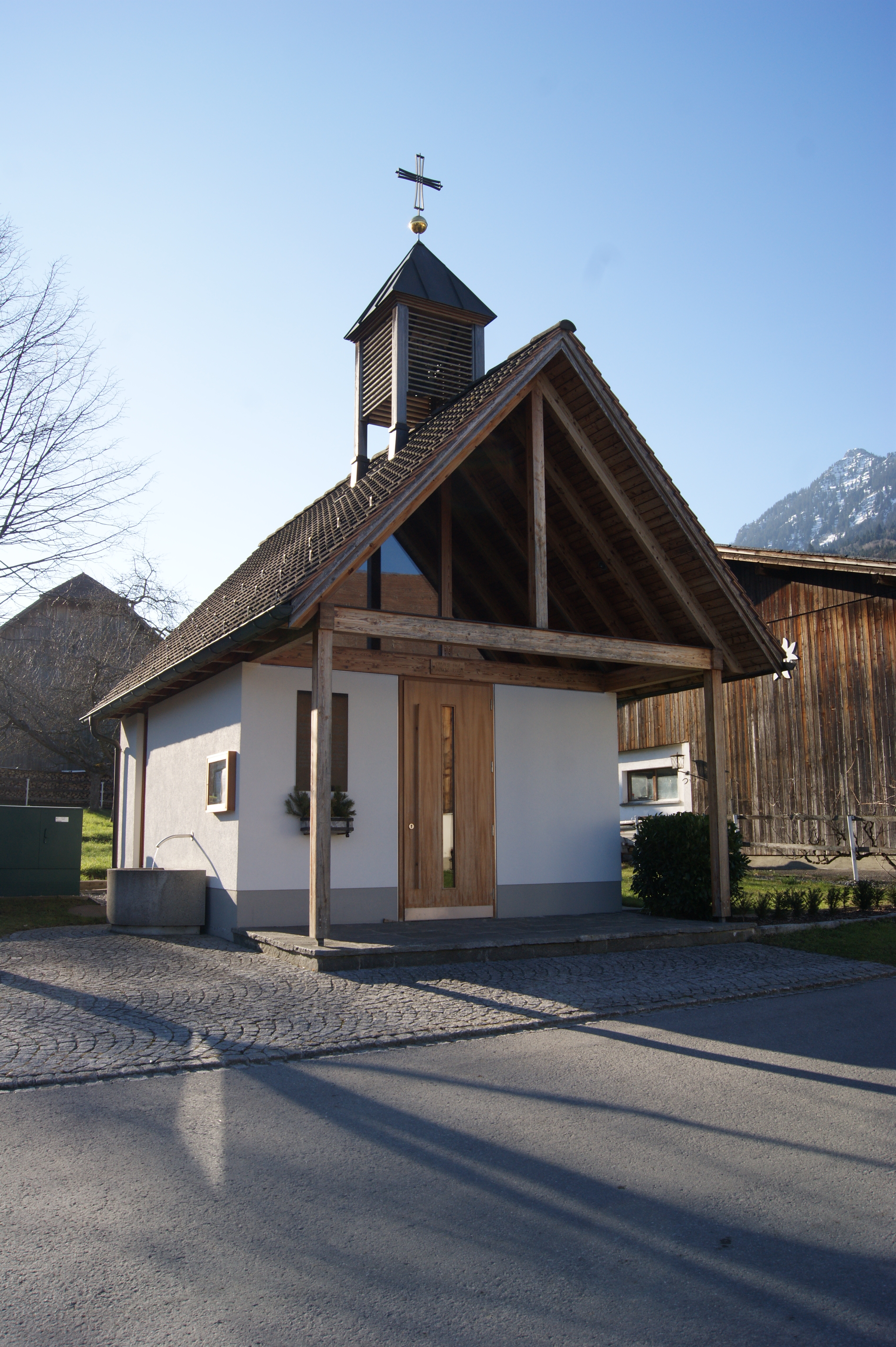 Chapel Klöslefeld in Frastafeders, Frastanz (Vorarlberg, Austria). Built in 1966, renovated in 1999.